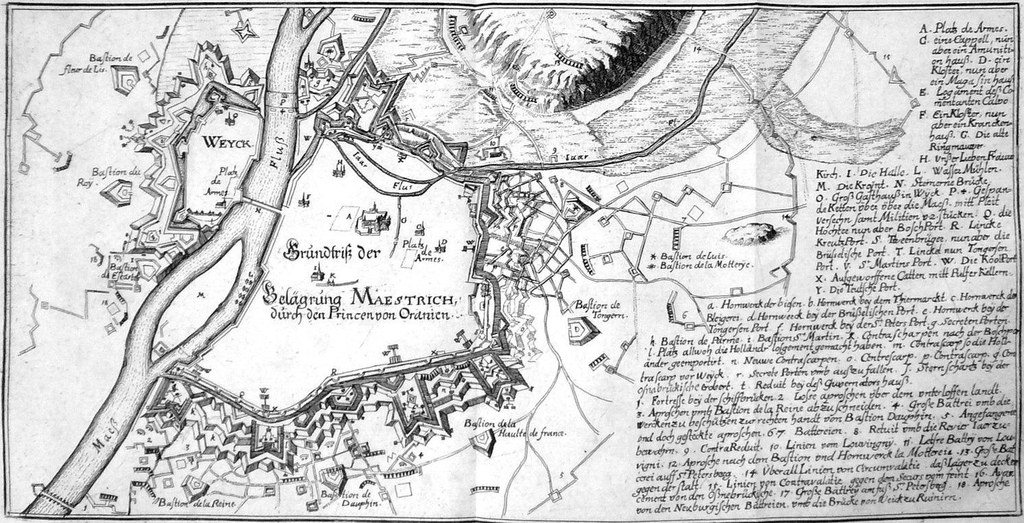 Map of the Siege of Maastricht by the Prince of Orange (William III) in 1676. Maastricht in the Netherlands was at that time occupied by the French.